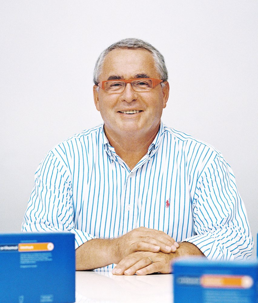 Kristian Glagau, Founder of Orthomol